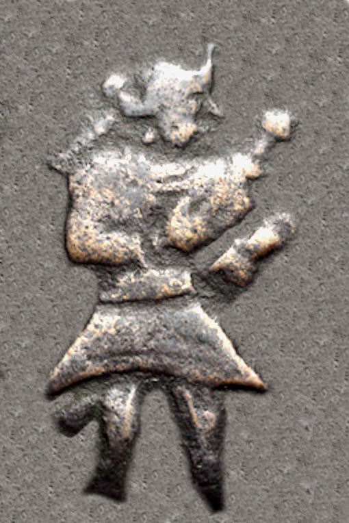 Paratarajas standing king holding a scepter Spajhayam 1st century CE.